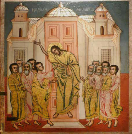 Theodosiy of Veles icon cа. 1813 in St Nicholas Church, Štip